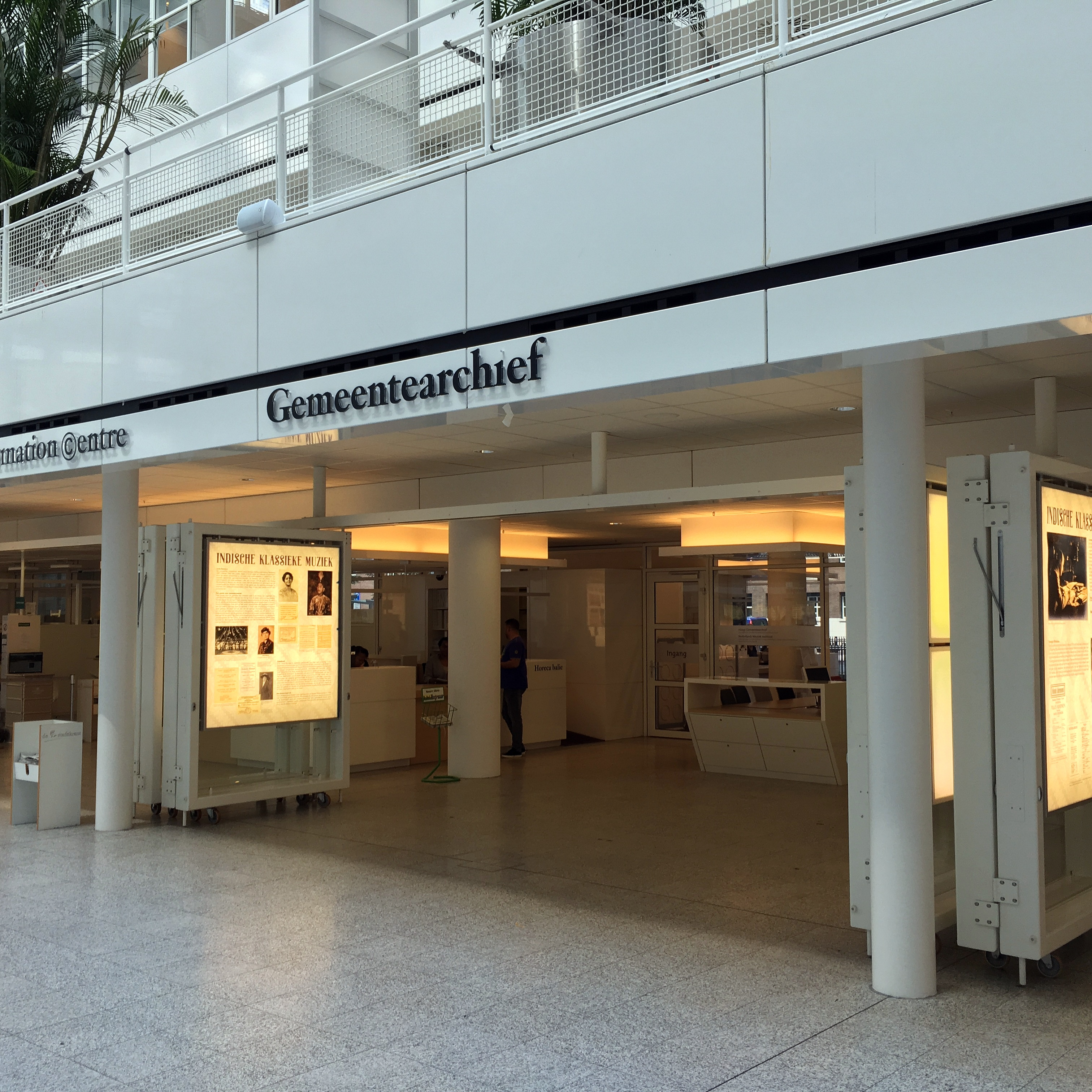 The Hague Municipal Archives, entrance in the atrium of city hall at Spui, The Hague.